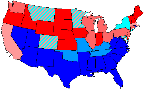 Summary of party control of U.S. house seats in the 82nd United States Congress following election. Stripes indicate a tie between two or more parties. Legend: 80.1-100% Democratic seat majority 60.1-80% Democratic seat majority 60% or less Democratic seat plurality 60% or less Republican seat plurality 60.1-80% Republican seat majority 80.1-100% Republican seat majority